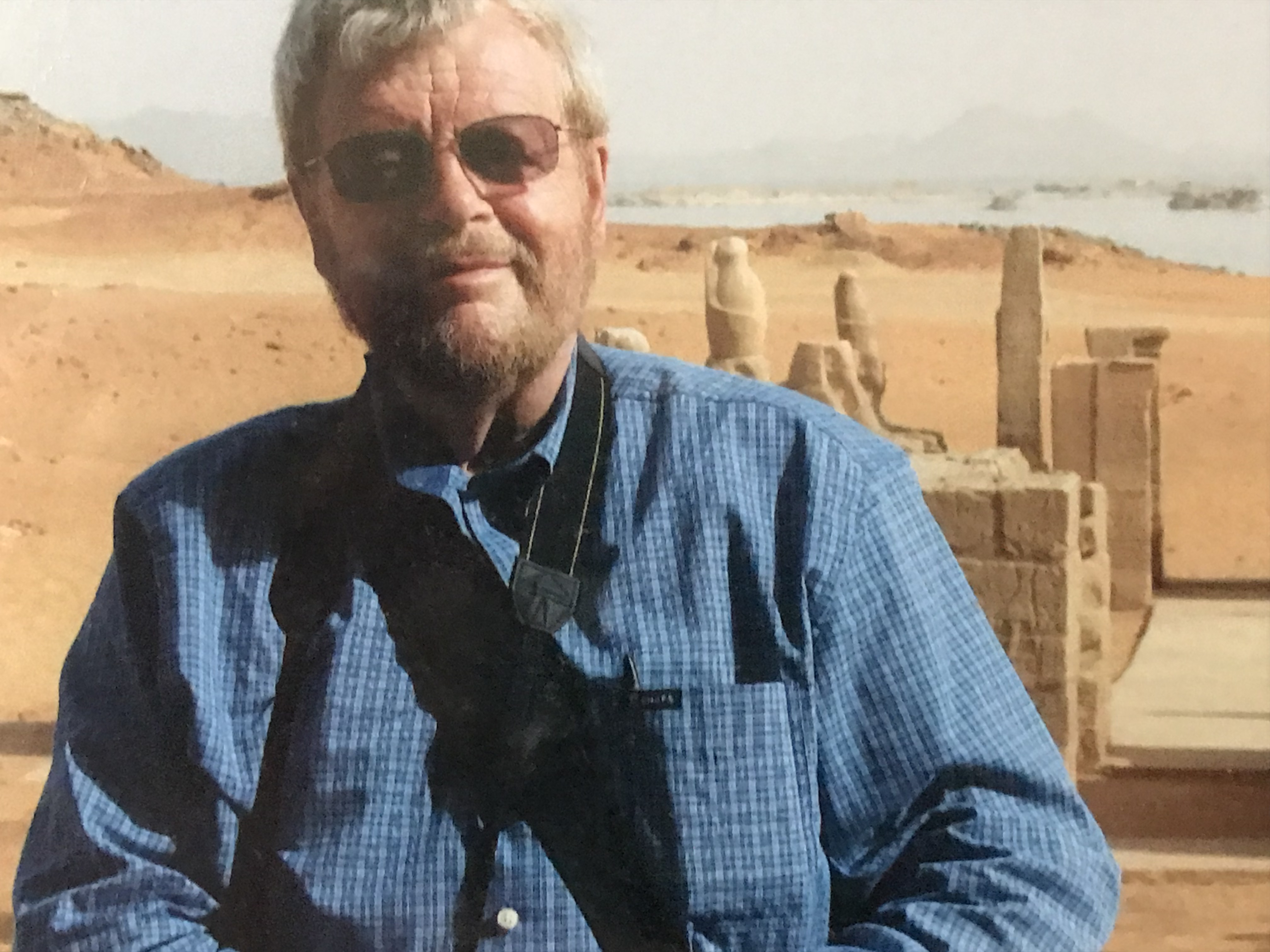 Donald Kummings traveled extensively throughout his life.